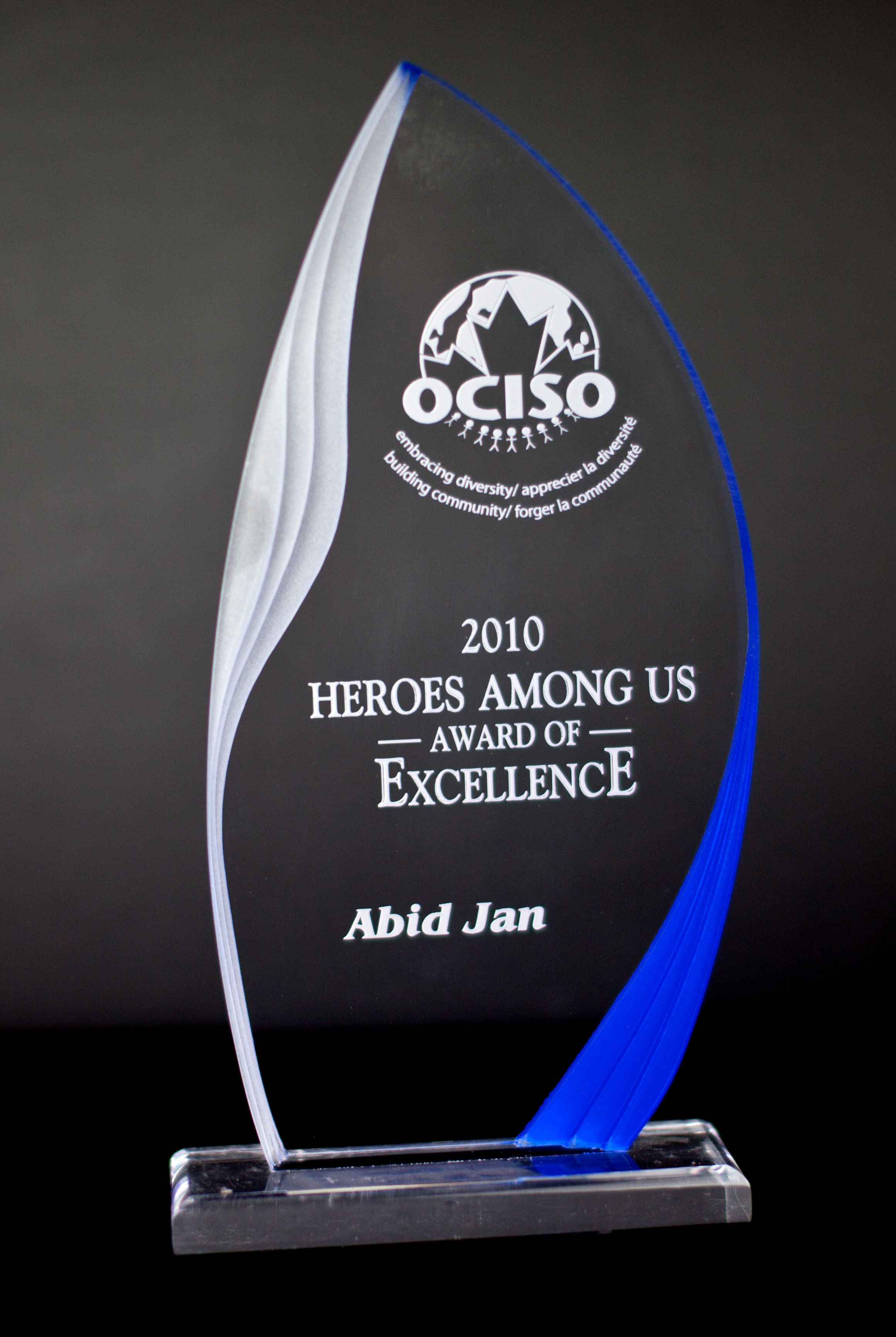 Abid Ullah Jan - Heroes Among Us Award of Excellence by OCISO Ottawa